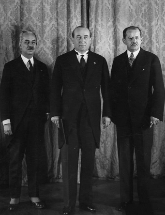 Hungarian Prime Minister Gyula Gömbös (middle) with Polish Prime Minister Leon Kozłowski (right) and Hungarian Ambassador to Poland Péter Matuska-Komáromy (left) in October 1934, Warsaw, Poland.